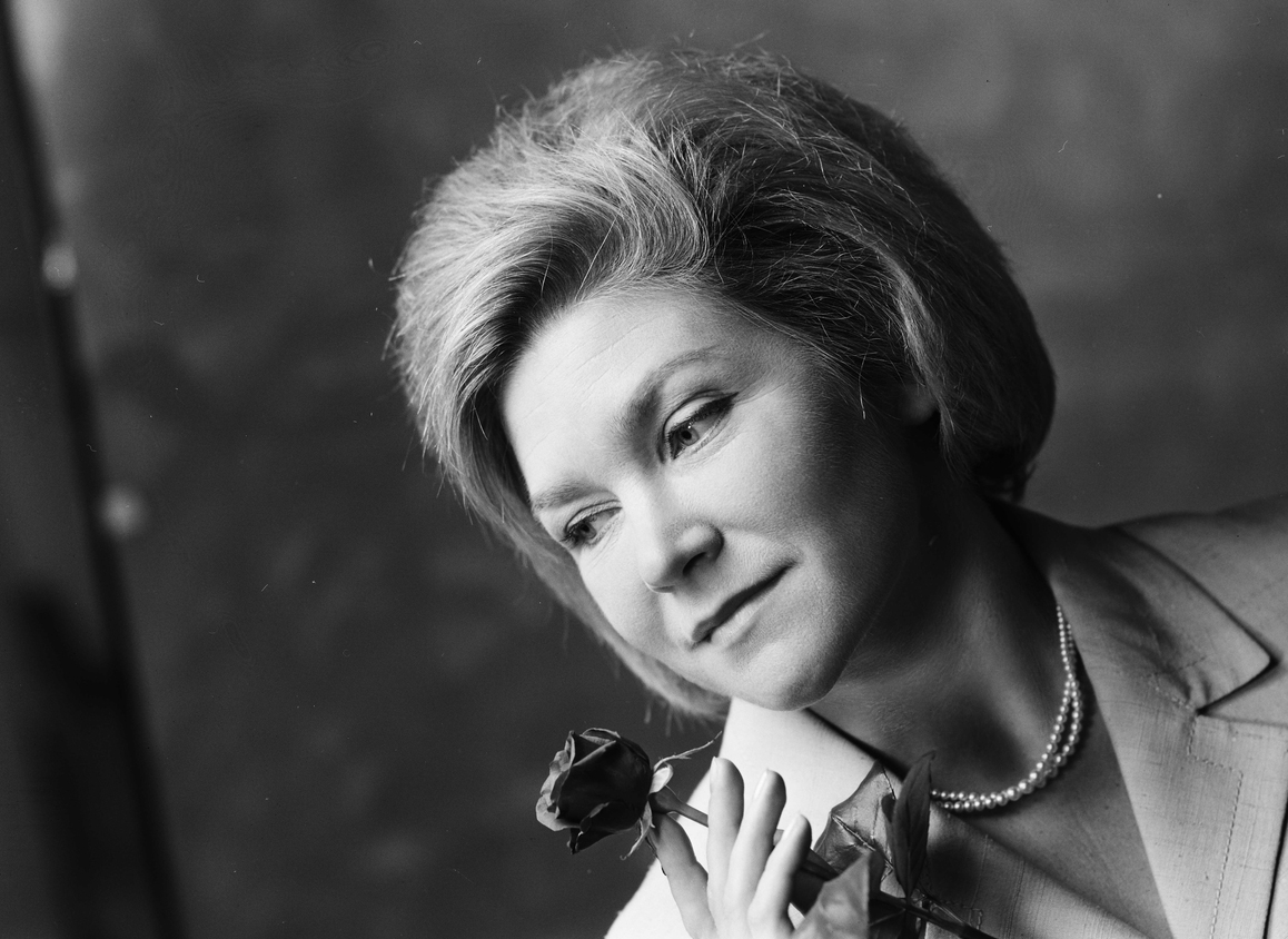 Portrait of Norwegian singer Nora Brockstedt.